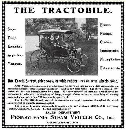 Tractobile advertisement, appeared 1903 in The Horseless Age Magazine. The Picture dates from 1901.